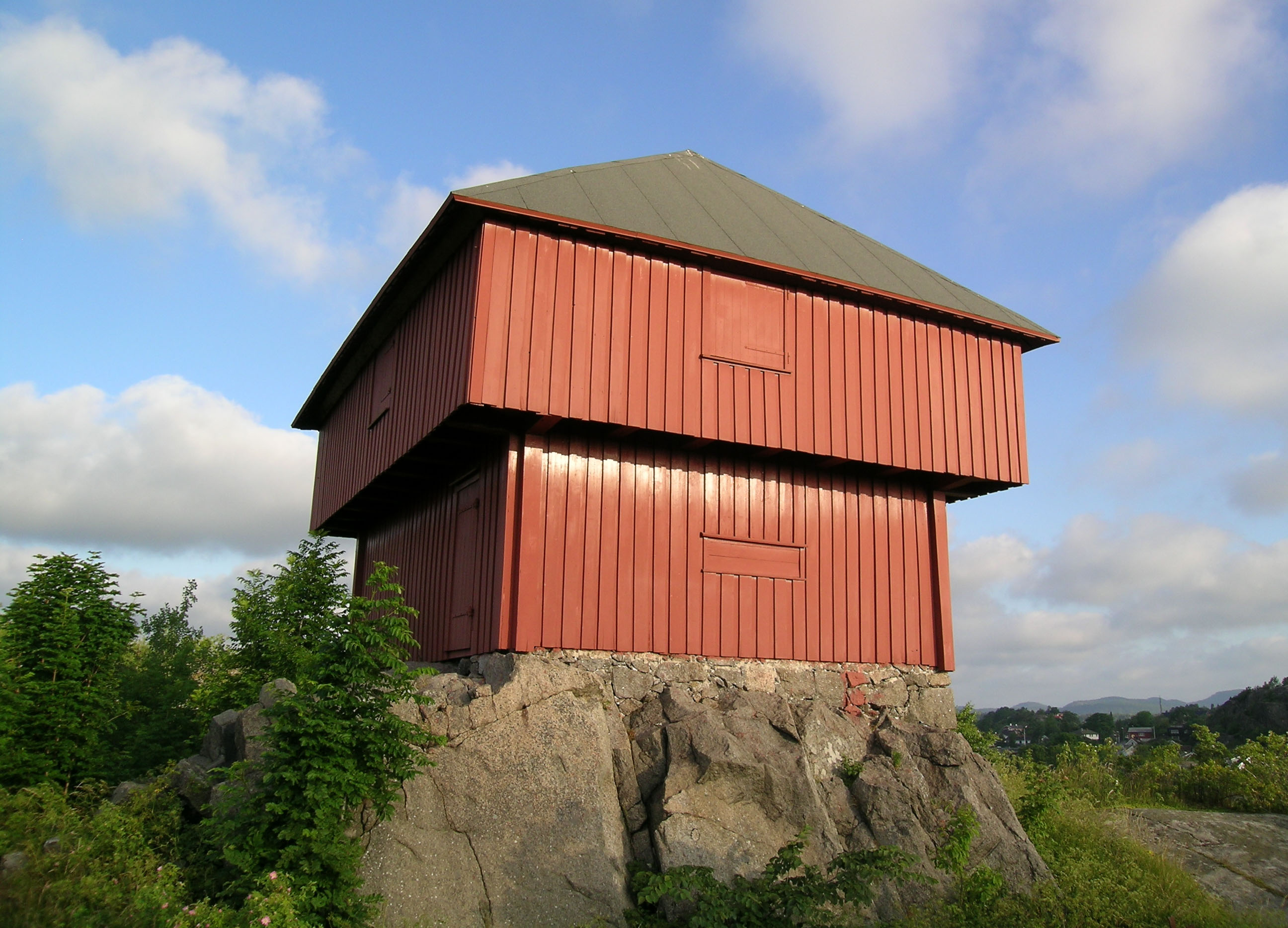 Blokkhus (blockhouse), Stavern, Larvik, Norway.